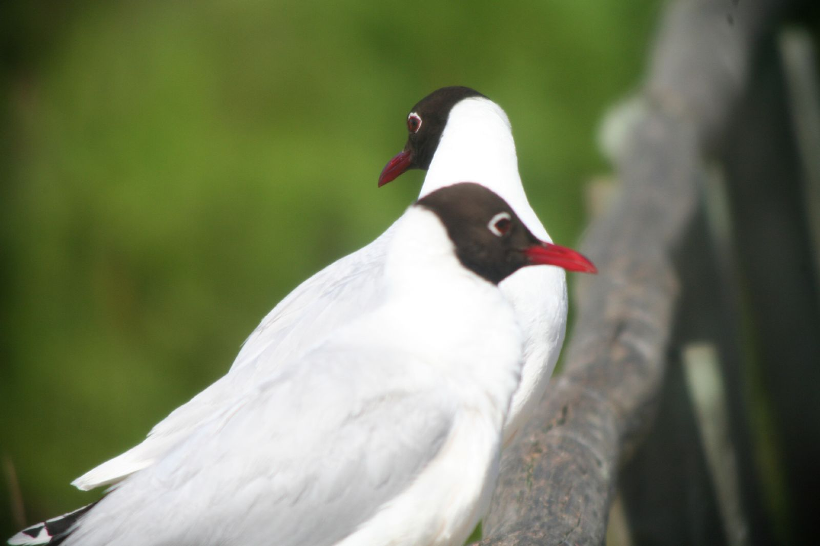 Brown-hooded Gull (Larus maculipennis, Chile)